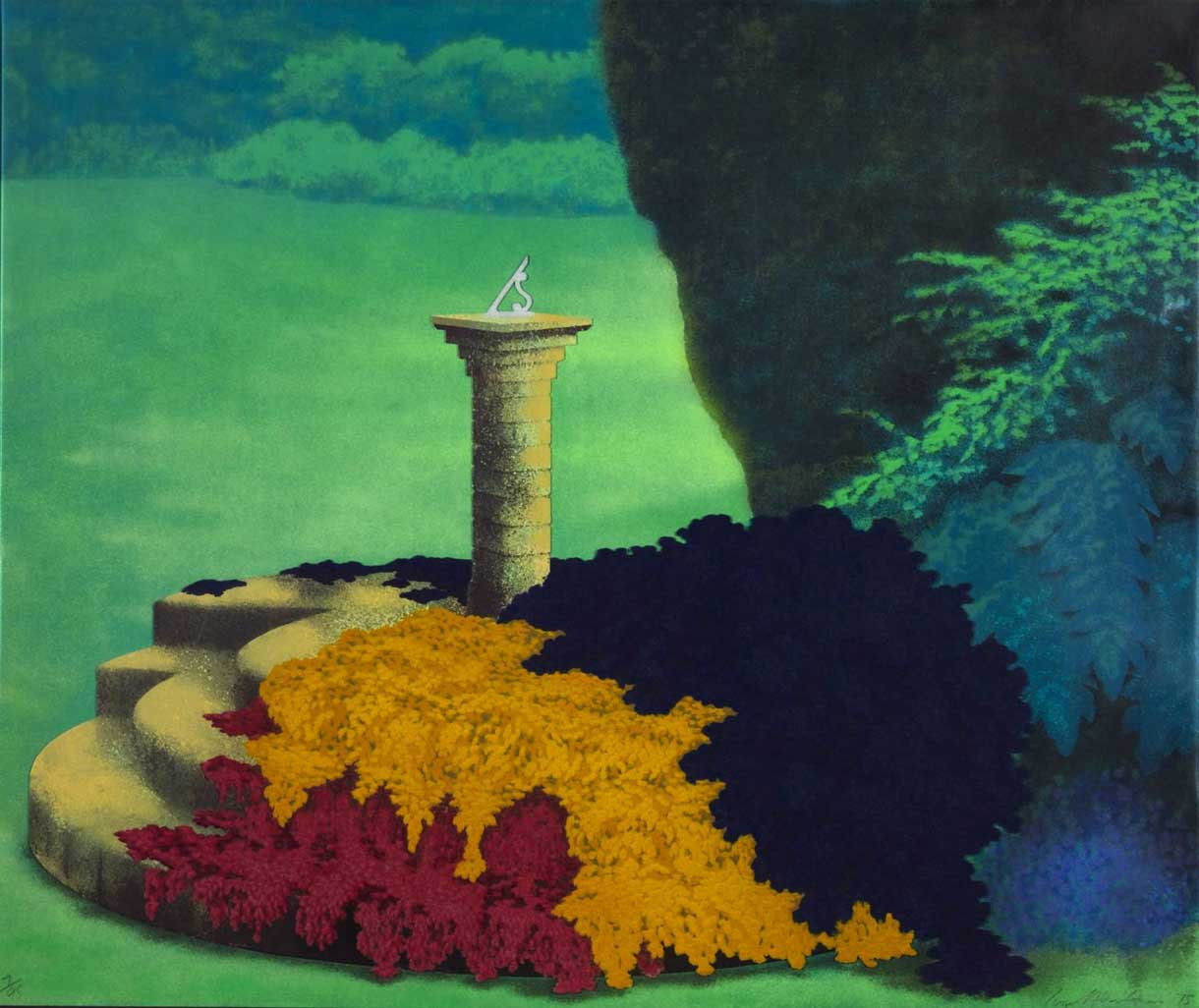 Sundial I (summer), Ivor Abrahams, 1975. 1016mmm x 1197mm Screenprint, felt and mixed media on paper.